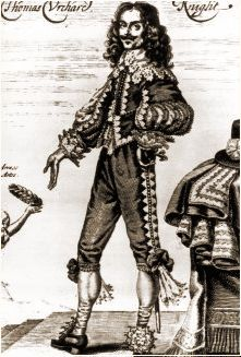 Thomas Urquhart on a 1641 engraving by George Glover